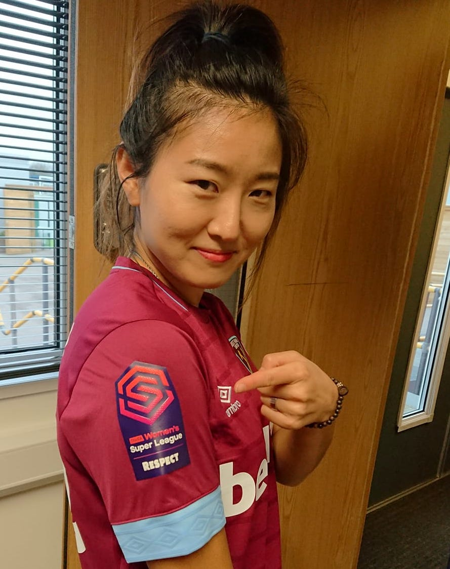 Cho SoHyun on the day she signed for West Ham Women.